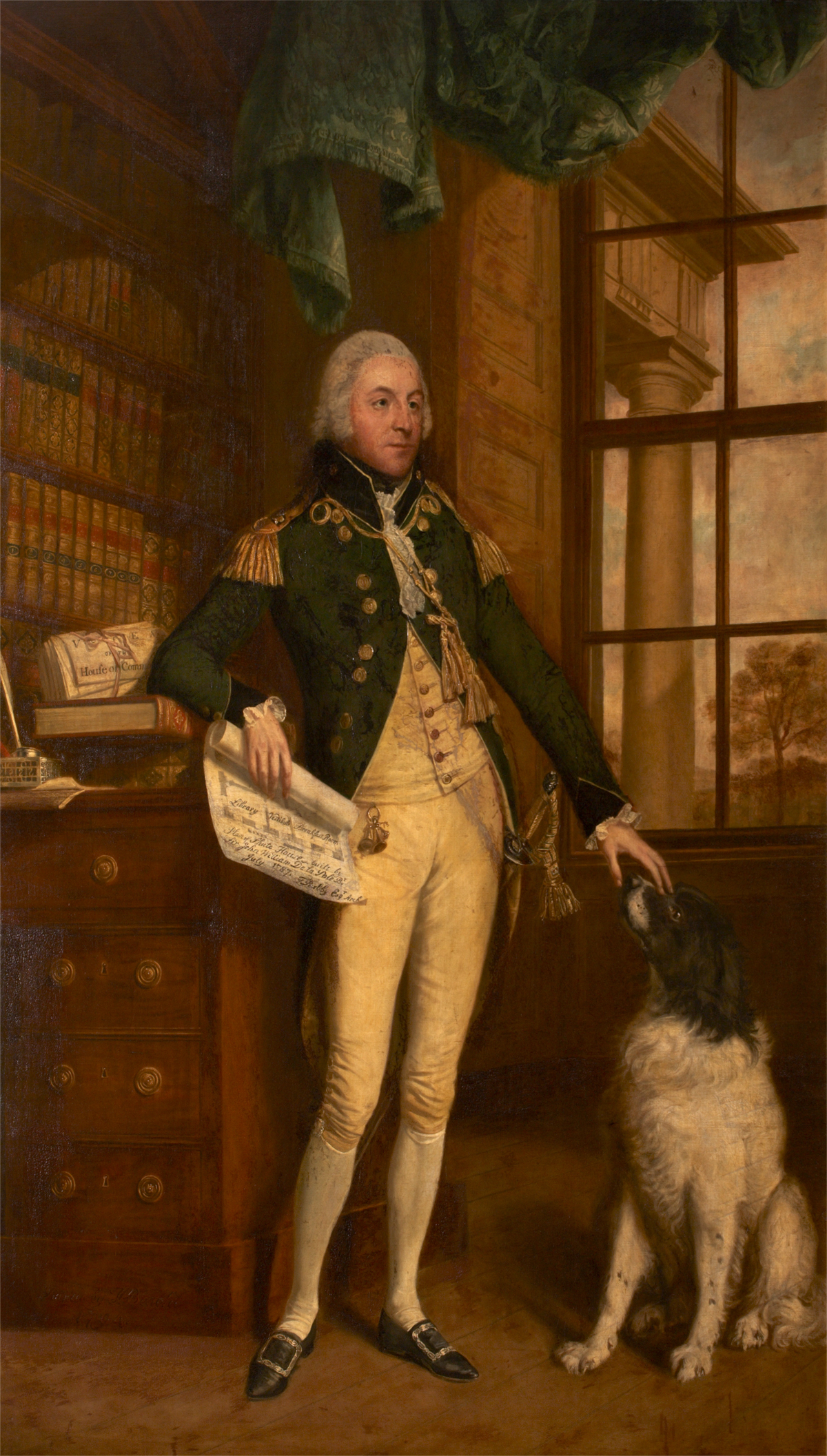 Sir John de la Pole, 6th Baronet (1757-1799), in uniform of Deputy Lieutenant of Devon, in the library of New Shute House, Devon, built by him between 1787-89, holding a plan of his new house in his right hand, with a view of the Doric portico through the window. Portrait by Thomas Beach, collection of Sir Richard Carew-Pole, Antony House, Cornwall.